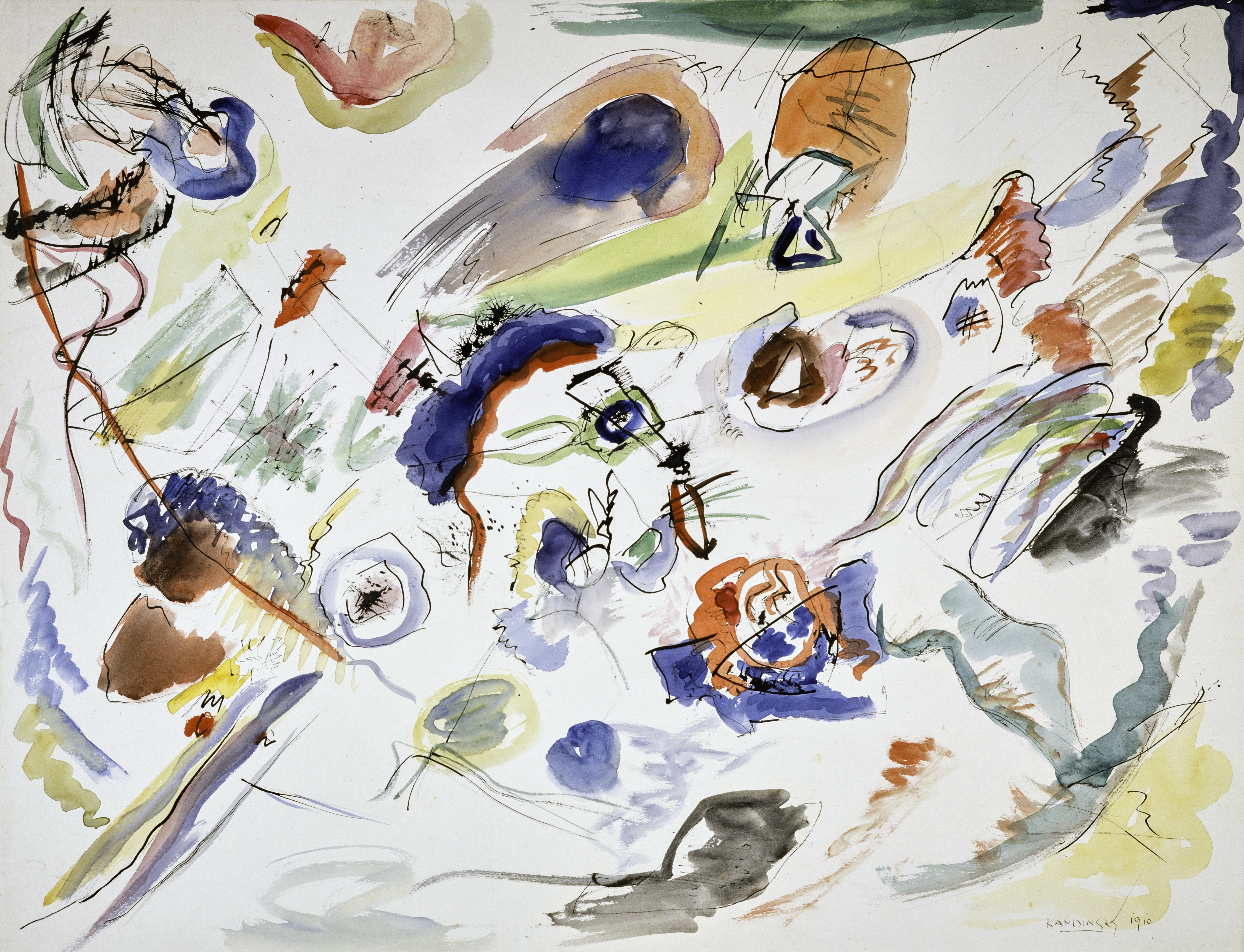 First abstract watercolor, painted by Wassily Kandinsky, 1913